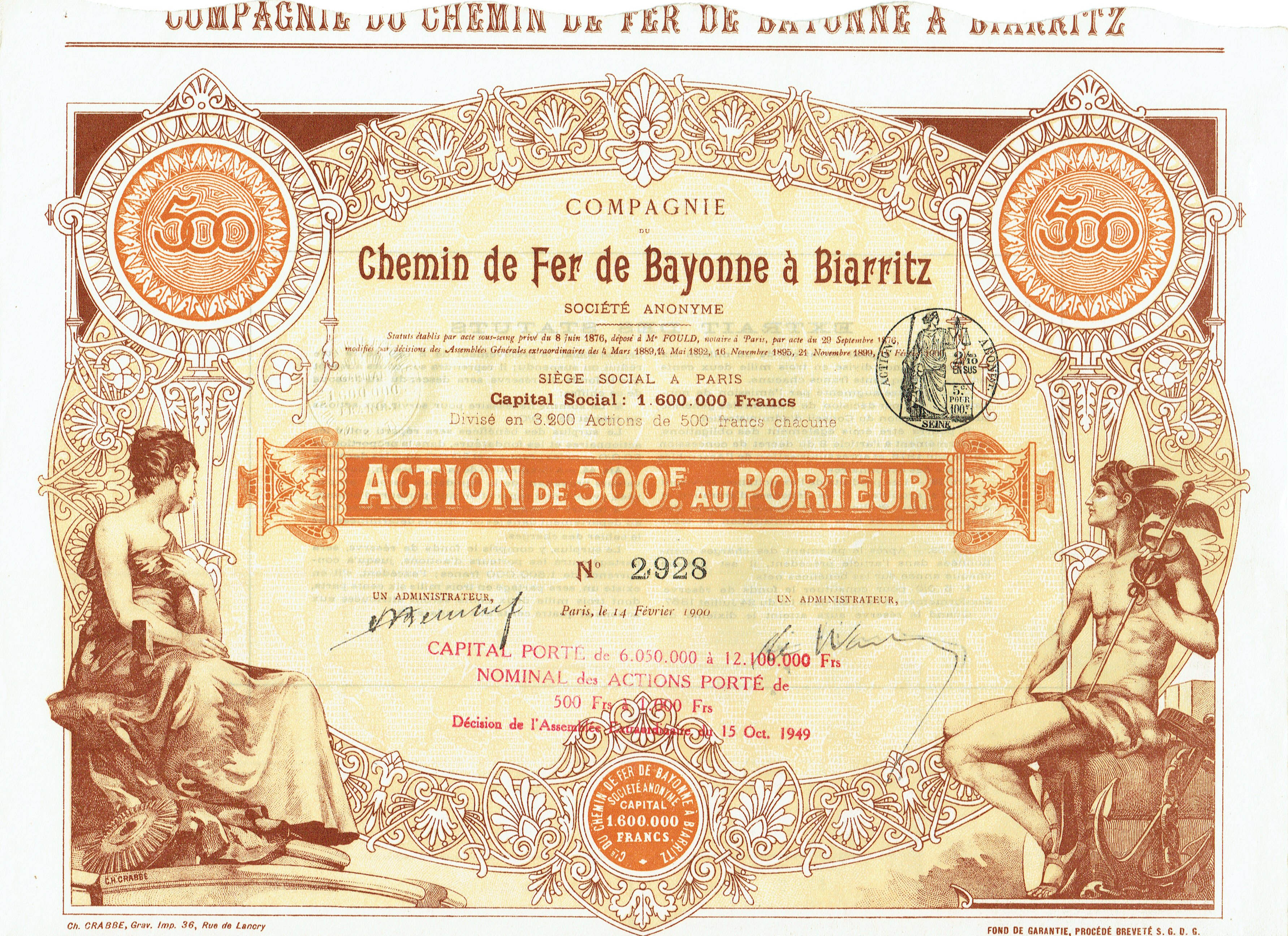 Share of the Compagnie du CdF de Bayonne à Biarritz, issued 14. February 1900